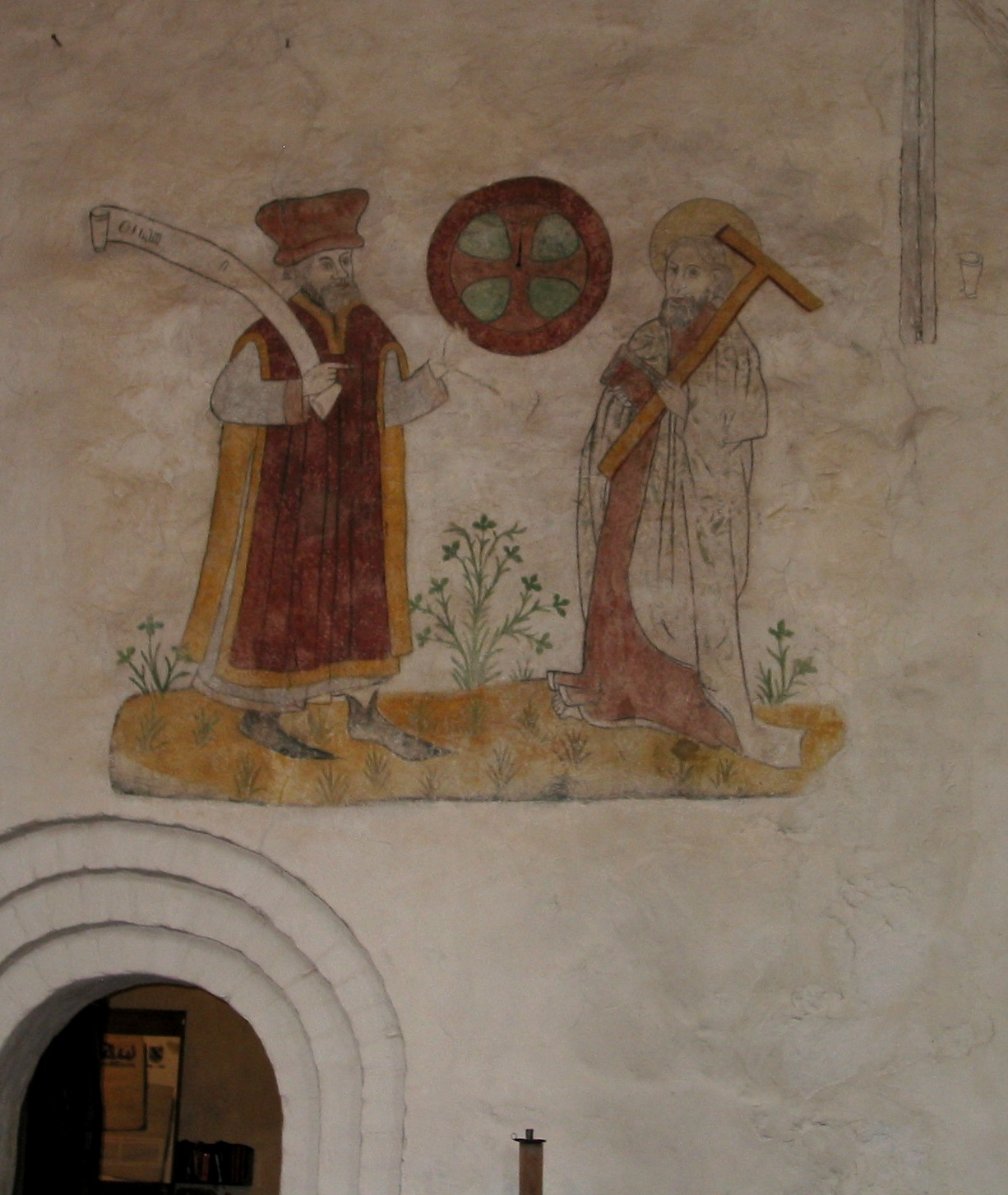 Sauvo Church, 15th century, Sauvo, Finland